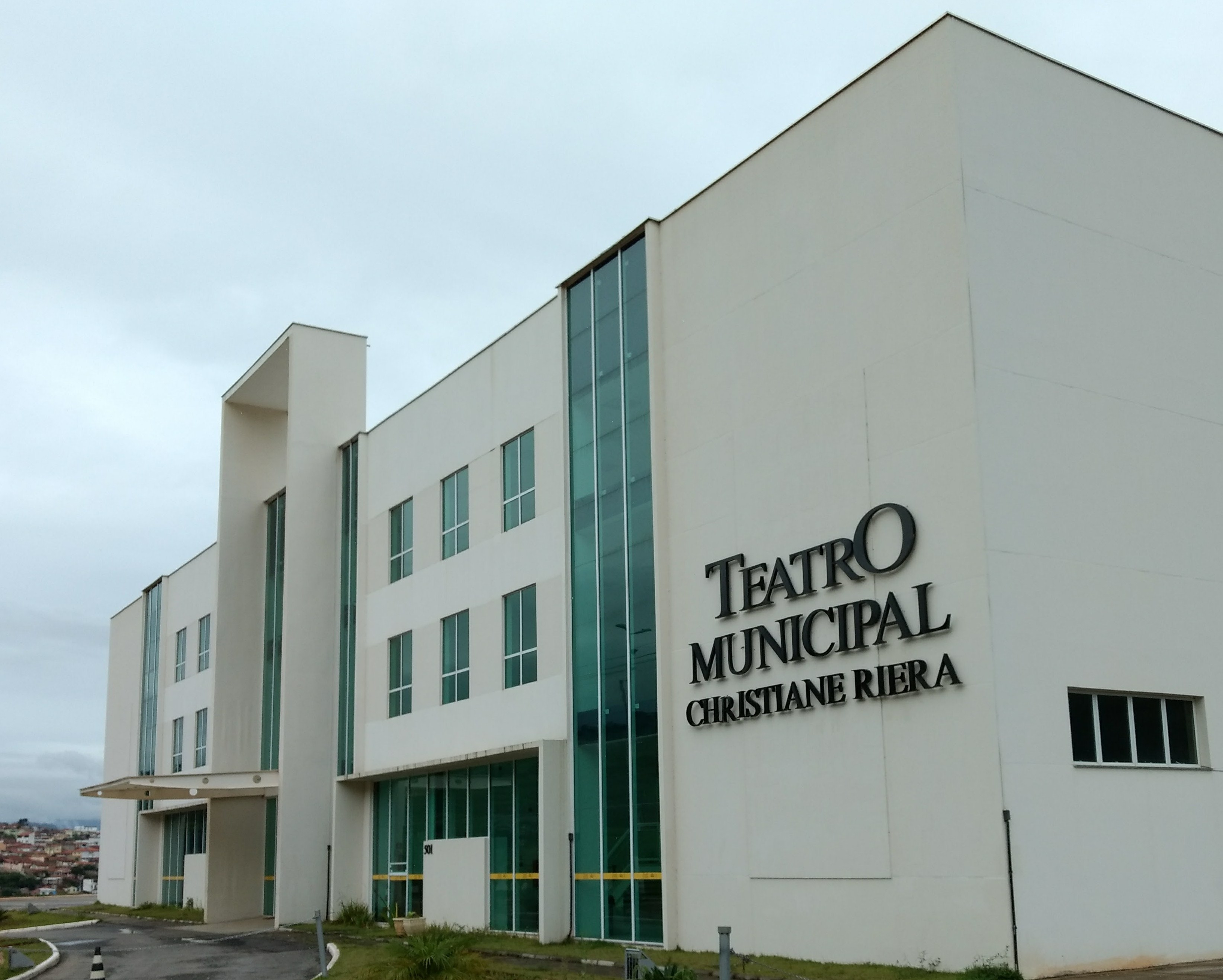 Christiane Riera Theater, Itajubá, Minas Gerais, Brazil